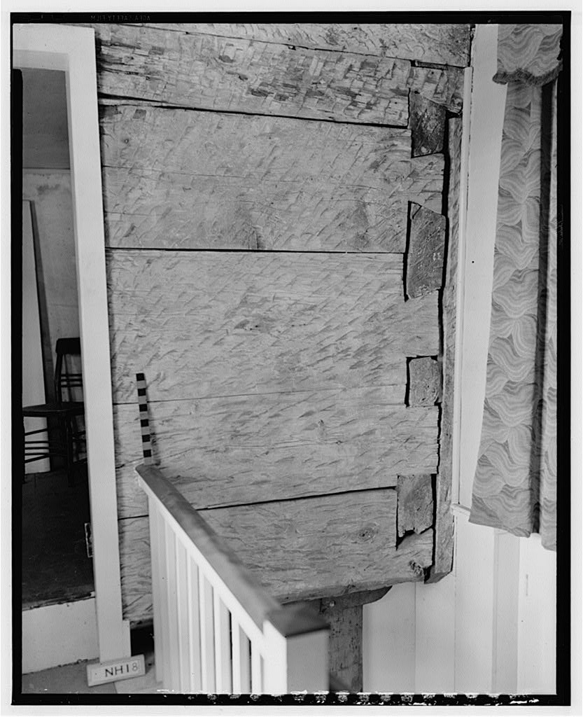 Photographic view of the north corner of the Gilman Garrison House, Water & Clifford Streets, Exeter, New Hampshire, second story, showing original logs of the garrison house with plaster chipped away. Historic American Buildings Survey, Library of Congress, Washington, D.C.